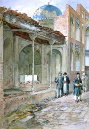 The Painting of Omar Khayyam's Tomb by William Simpson (1823—1899)